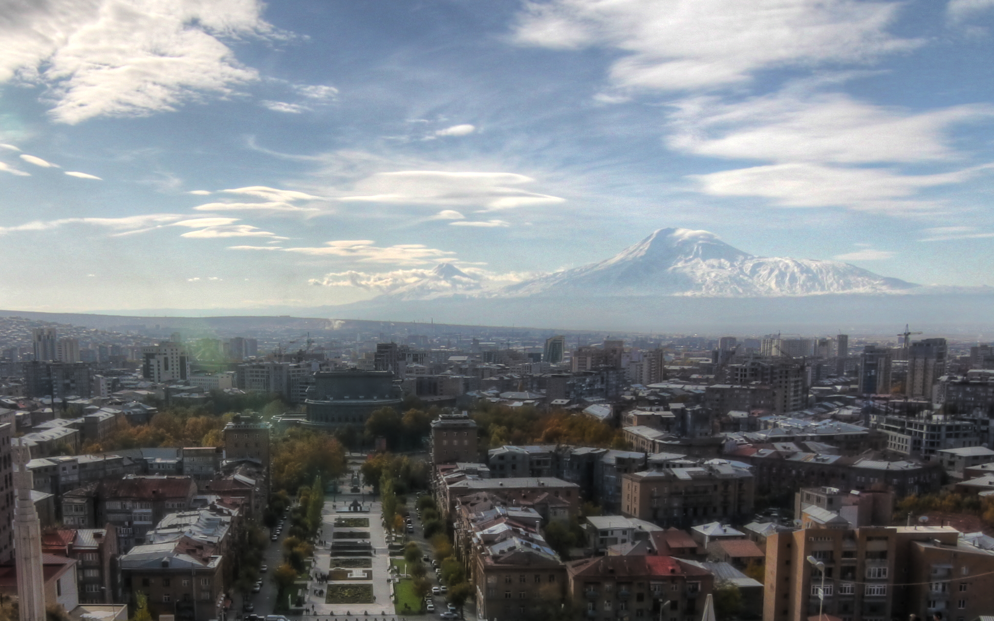 A view of Yerevan, Armenia, from the Cafesjian Museum of Art with Mount Ararat in the background.